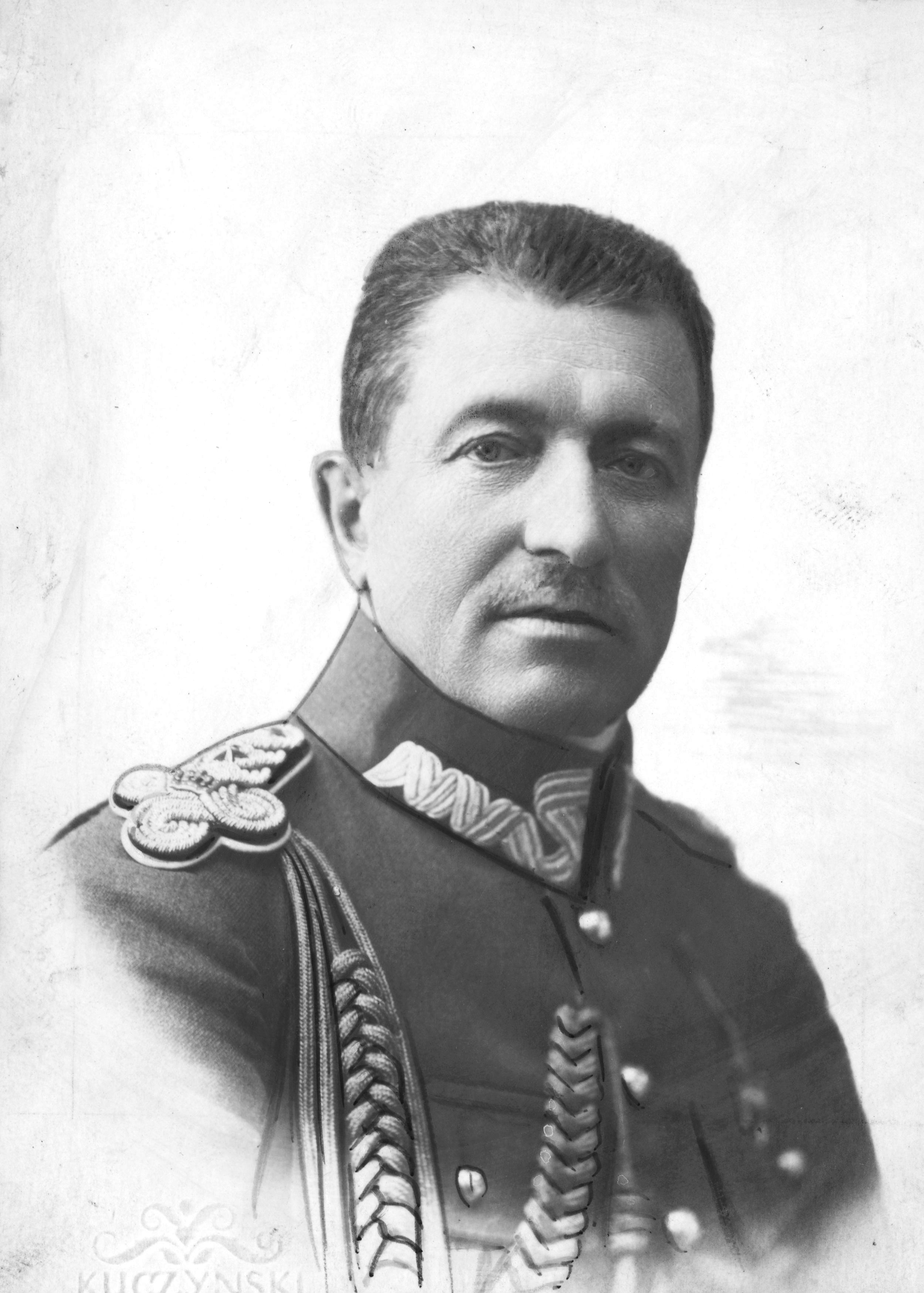 General Franciszek Ksawery Latinik as a leader of Polish south-western front.